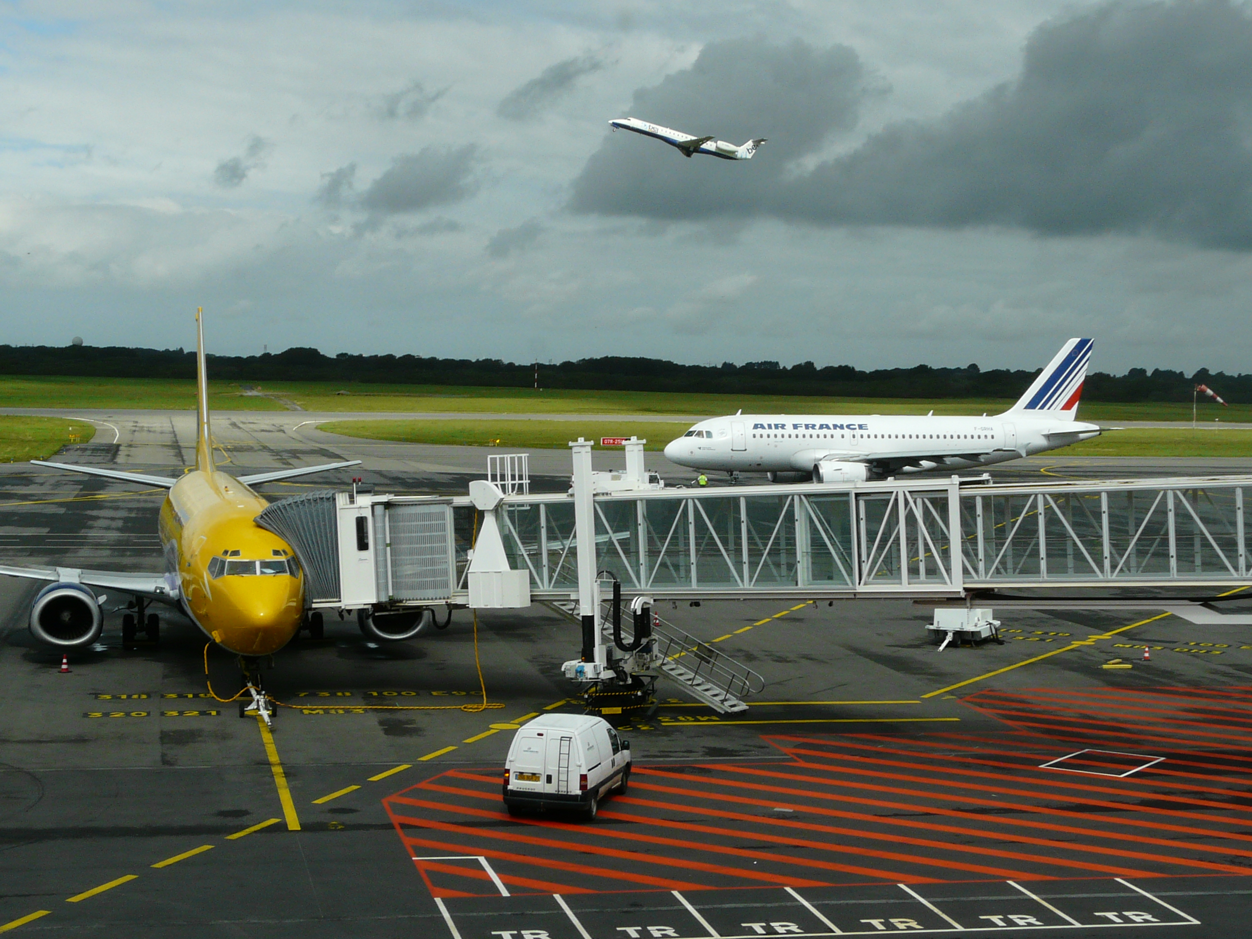 Brest flights departures